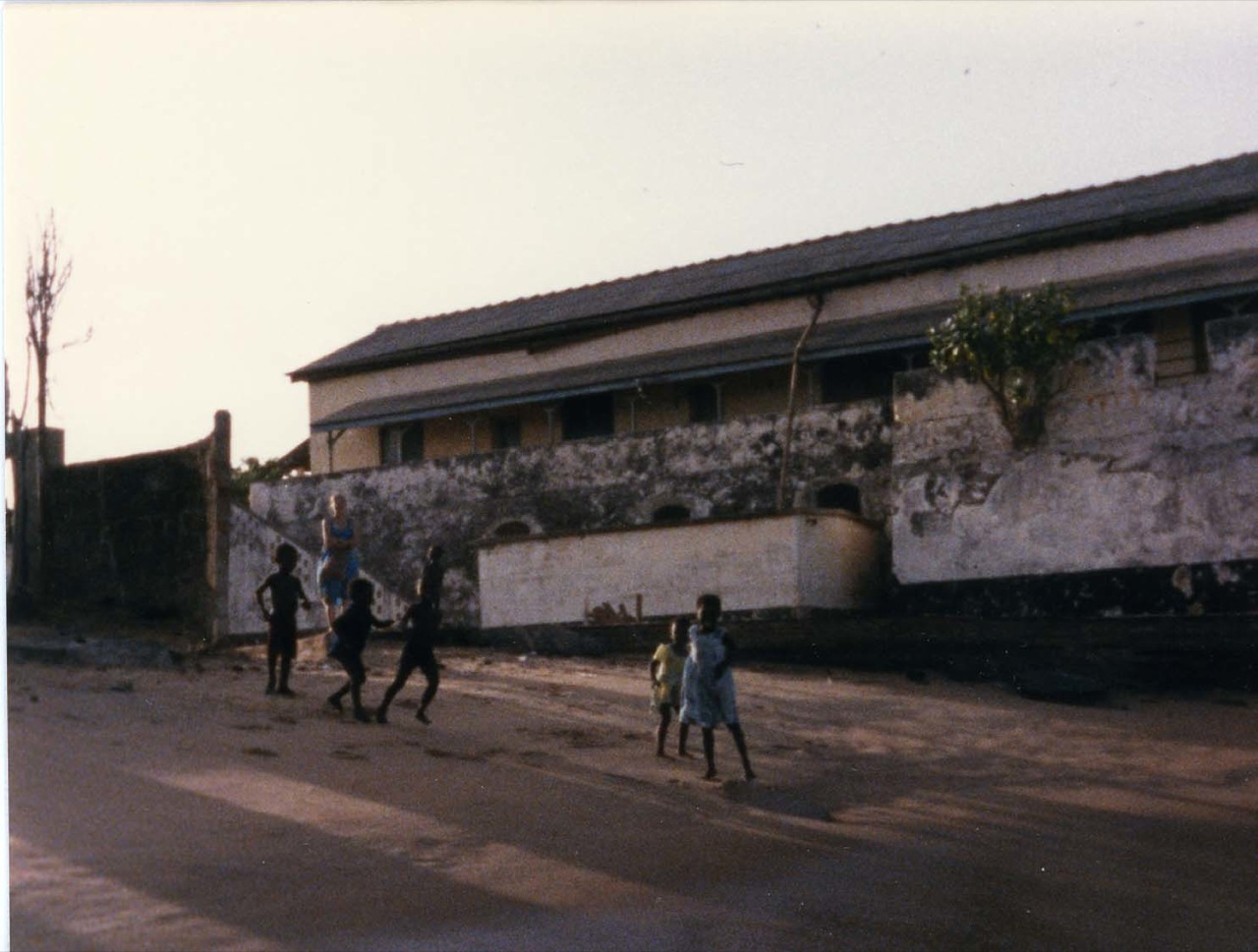 This is a photo of Fort Prinsensten, Keta built in1784 as a Danish-Norwegian Slaving Fort. Was reused as prison and government building after. Was washing in to the sea when the photo was take in 1985